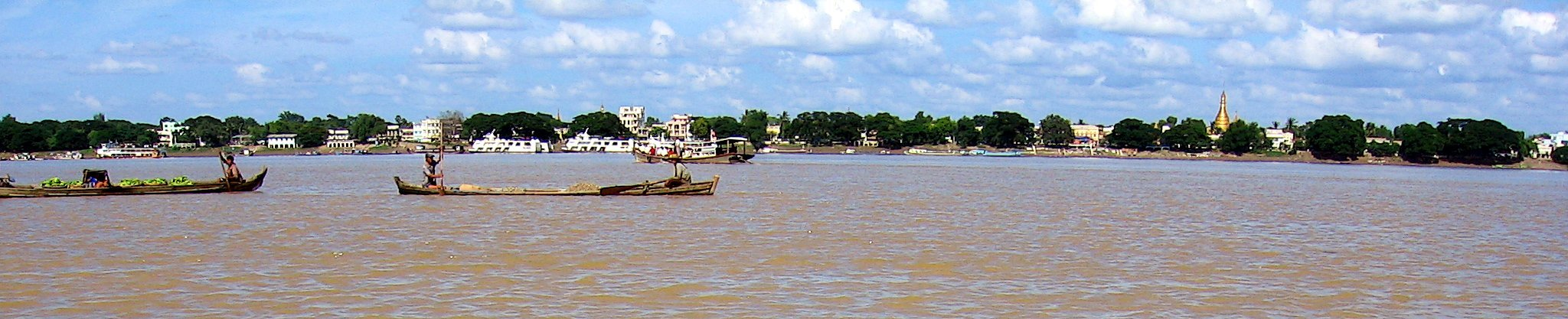 Chindwin river in Monywa, Myanmar